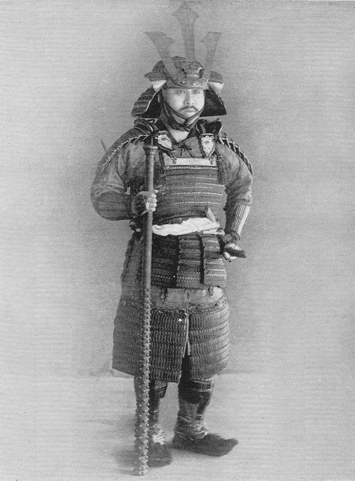 A picture from the book titled:MILITARY COSTUMES IN OLD JAPAN by KAZUMASA OGAWA, 1893. The title of the picture is "Knight of the Nanhoku-cho period". It shows a samurai in full armor carrying a kanabo.